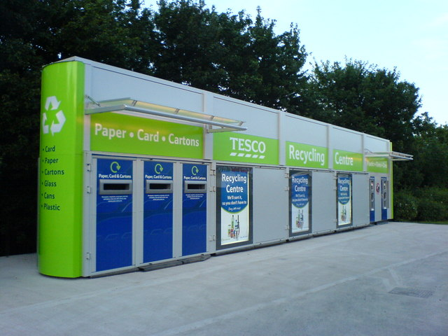 Recycle! New, state of the art recycling facility at the Tesco Hypermarket, Irlam. See465450